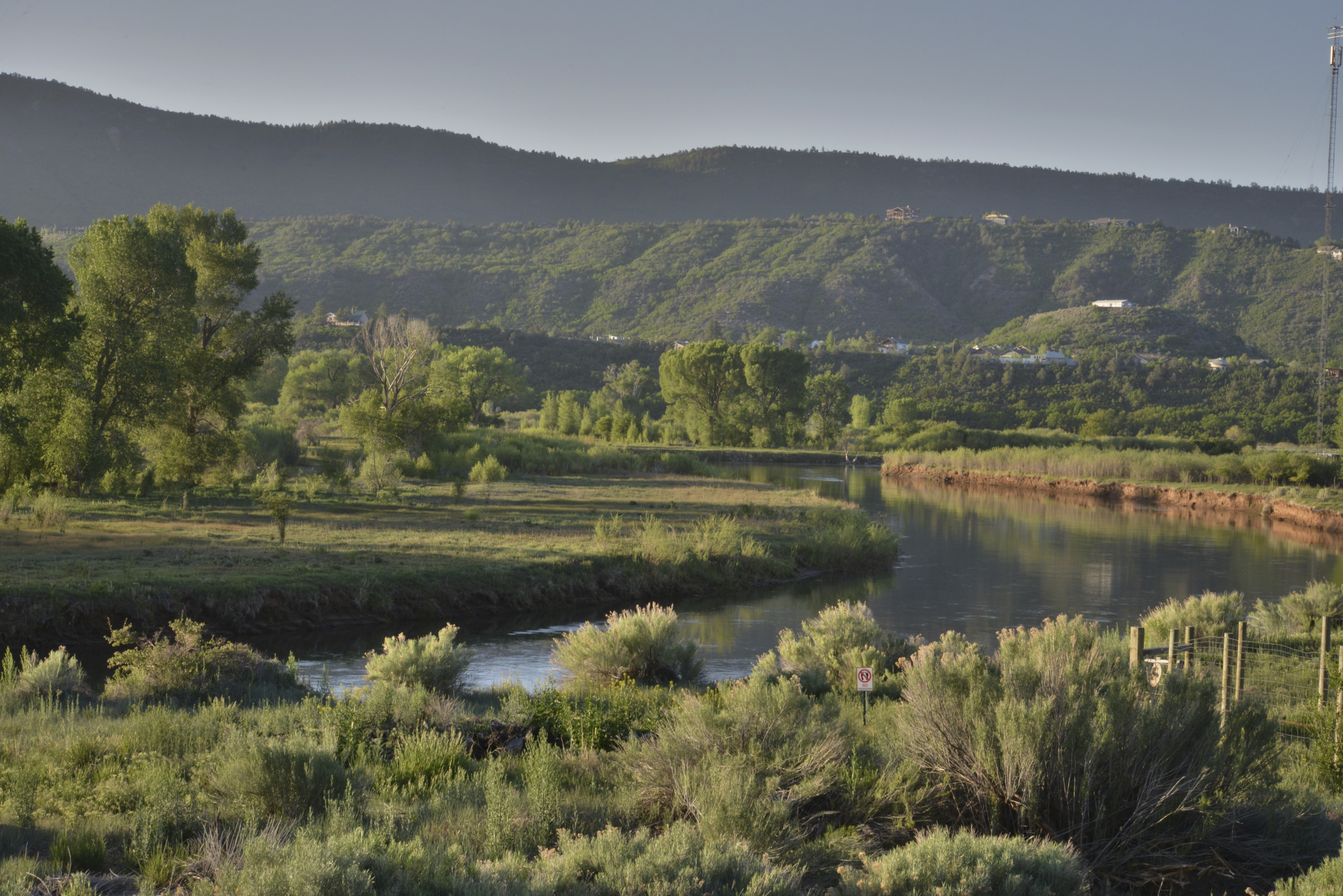 The Animas River in Durango, CO, just north of downtown